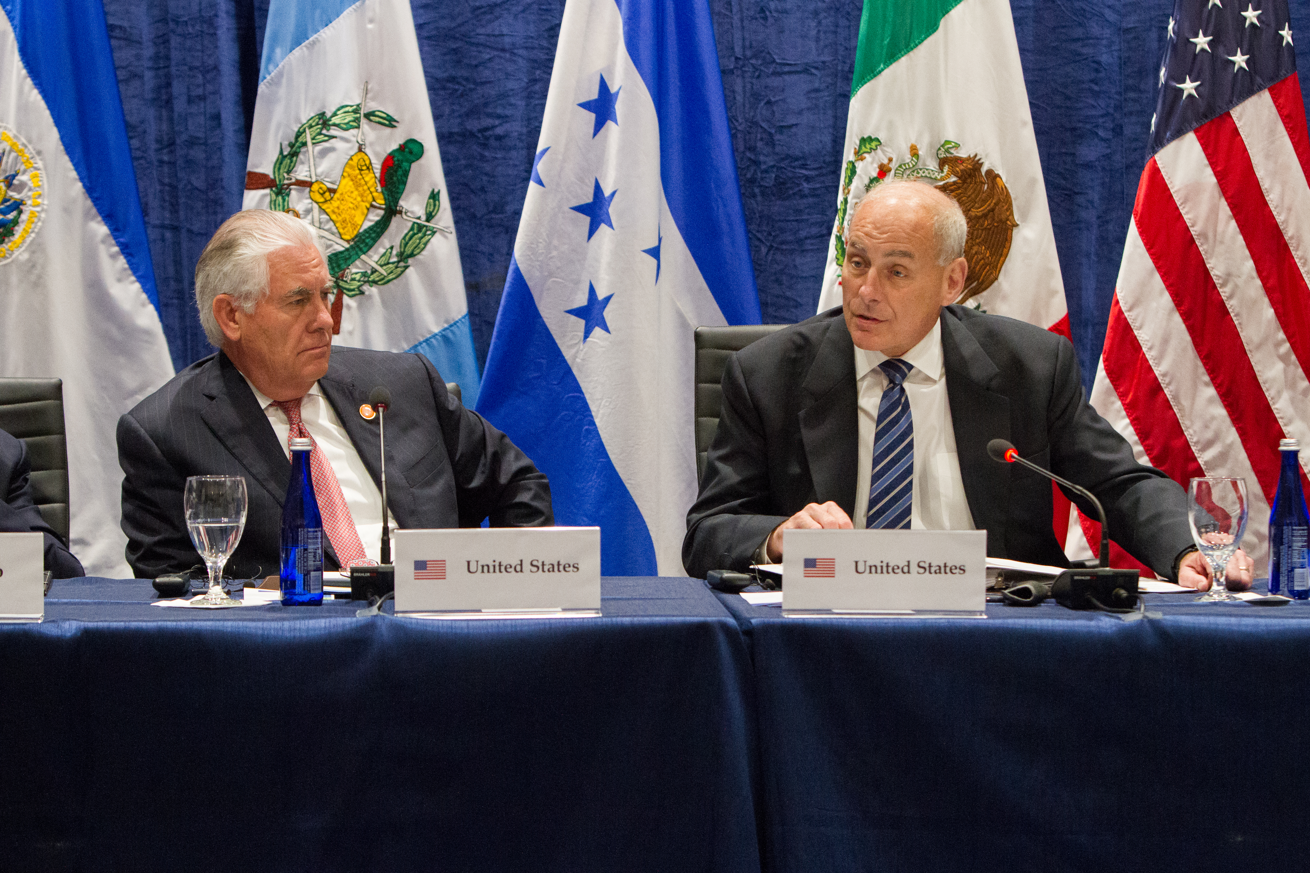 U.S. Secretary of State Rex Tillerson and U.S. Secretary of Homeland Security John Kelly meet with senior leaders at the Conference on Prosperity and Security in Central America, at Florida International University in Miami, Florida, on June 15, 2017. [State Department photo/ Public Domain]